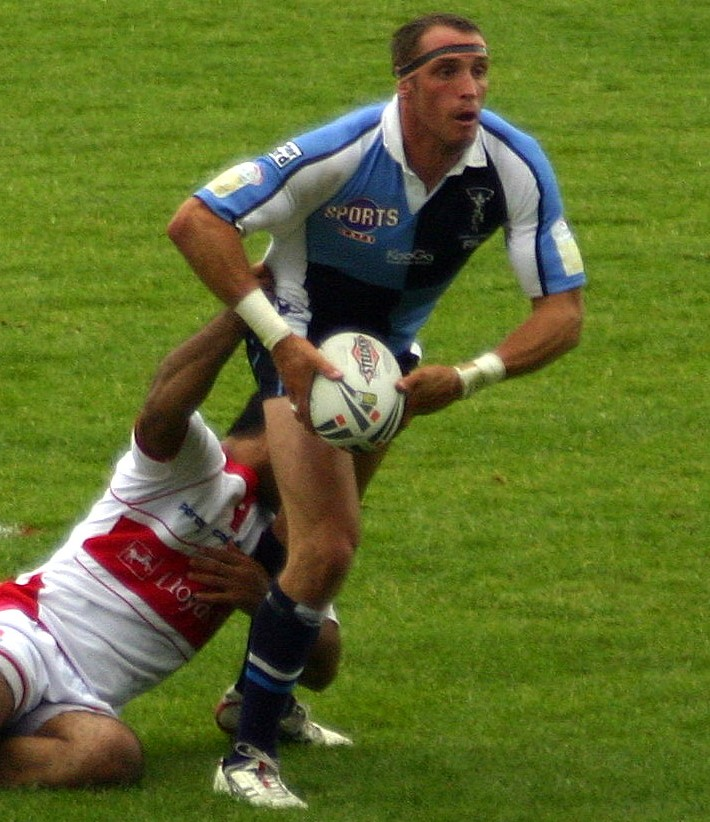 Rob Purdham